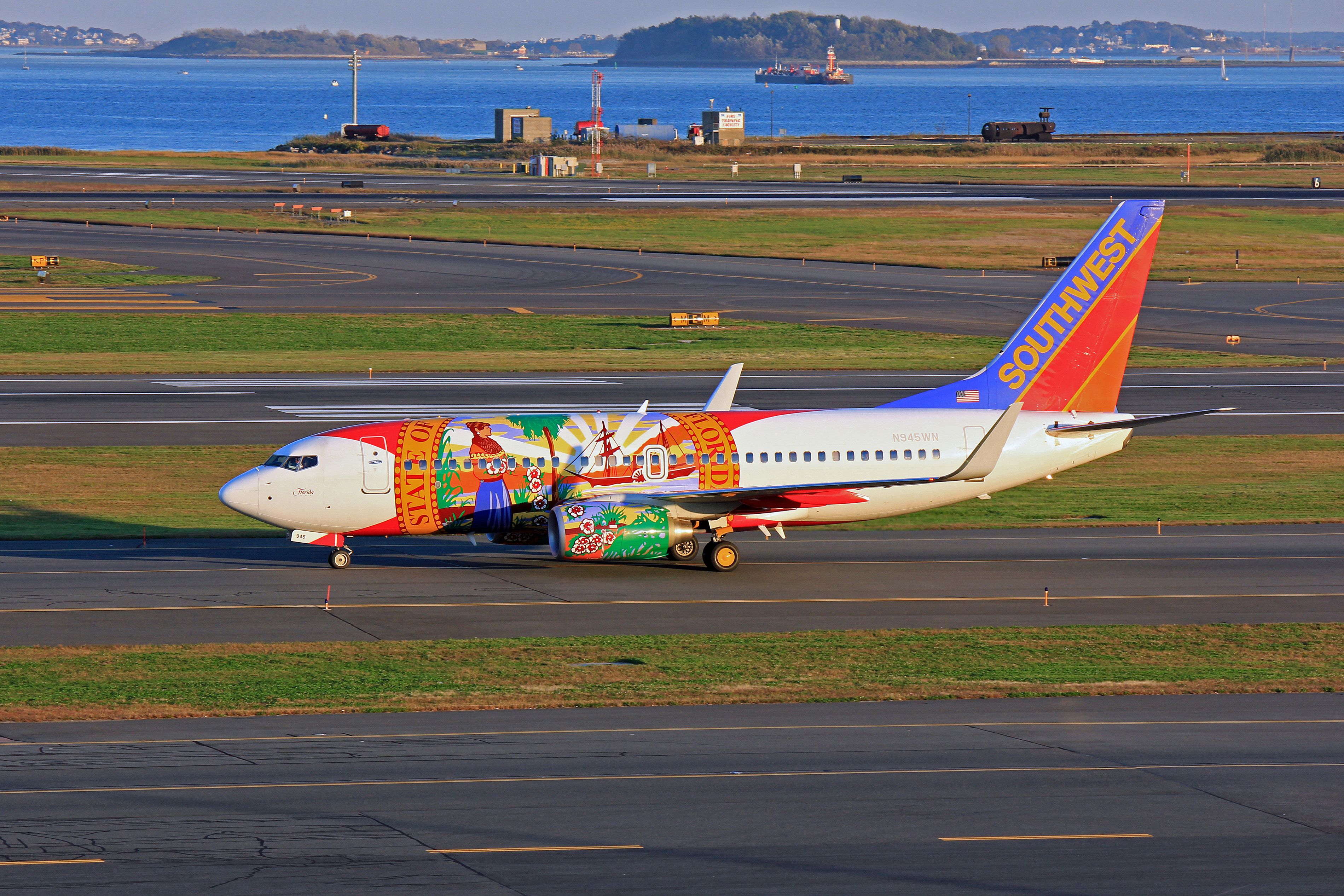 Southwest Airlines 737 in the colors of Florida's state flag. Logan Airport, Boston, Massachusetts USA